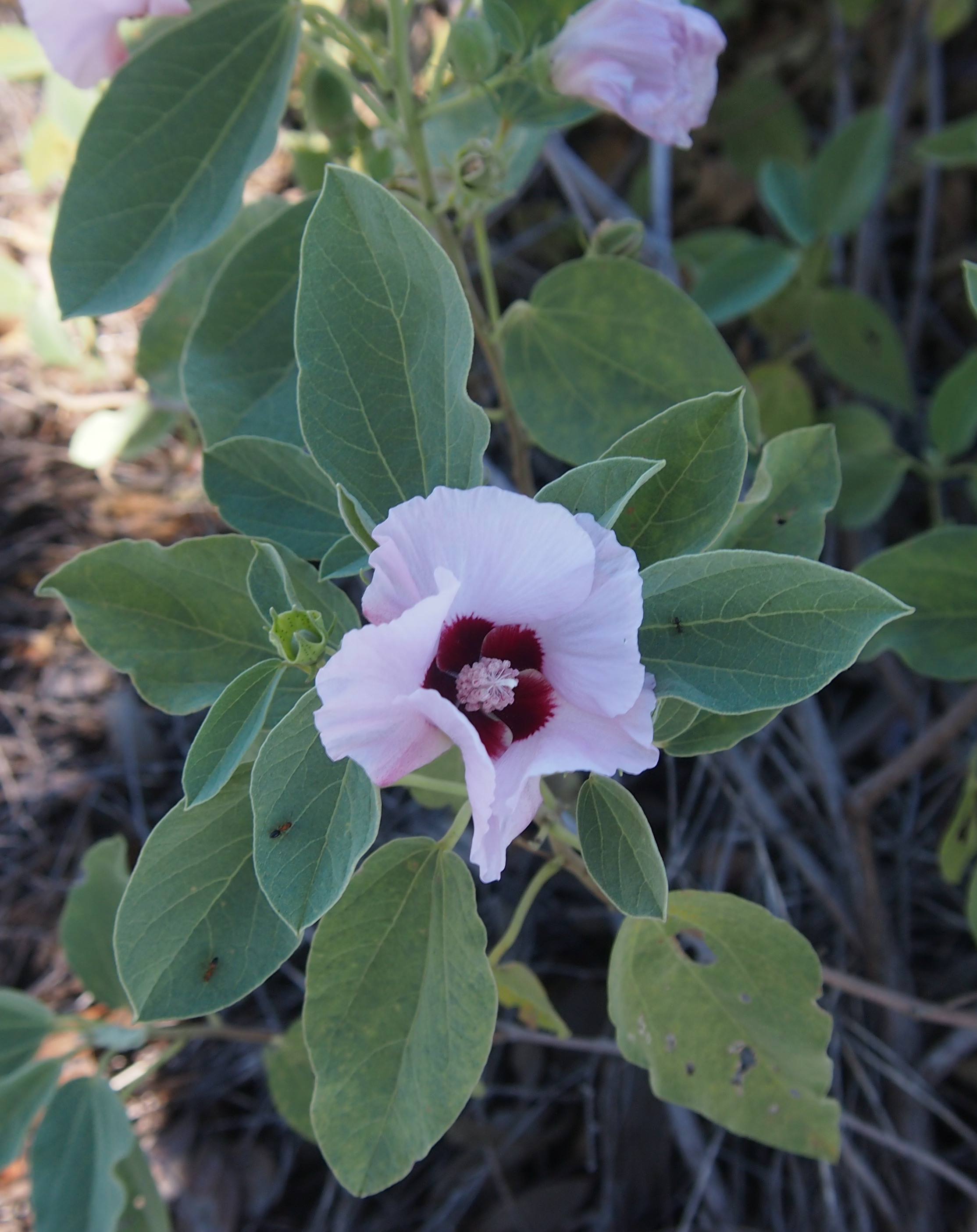 Gossypium sturtianum flower